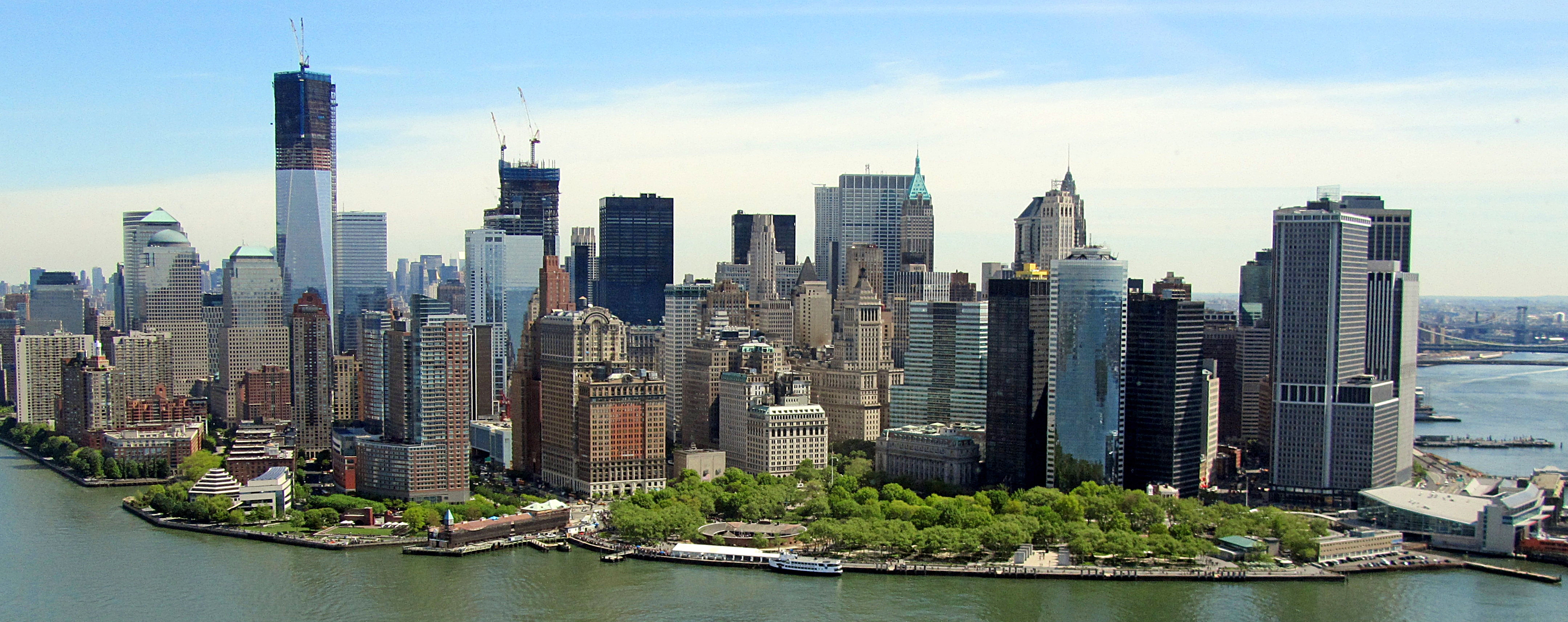 This was taken on the morning that One World Trade Center became the tallest building in New York City.